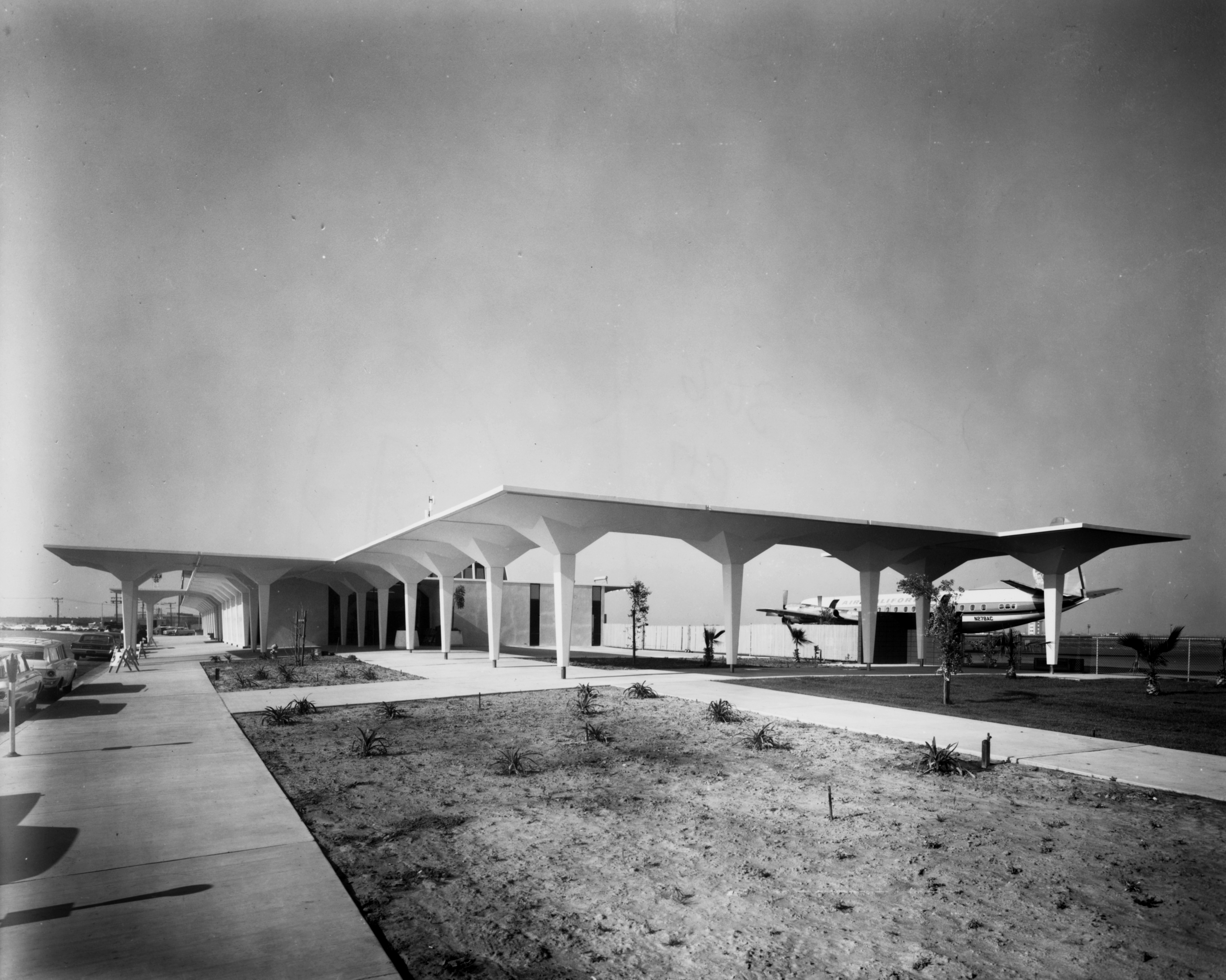 John Wayne Airport (1967). Located in Orange County, Southern California. There are no known copyright restrictions on this image. All future uses of this photo should include the courtesy line, "Photo courtesy Orange County Archives." Comments are welcome after reading our Comment Policy .